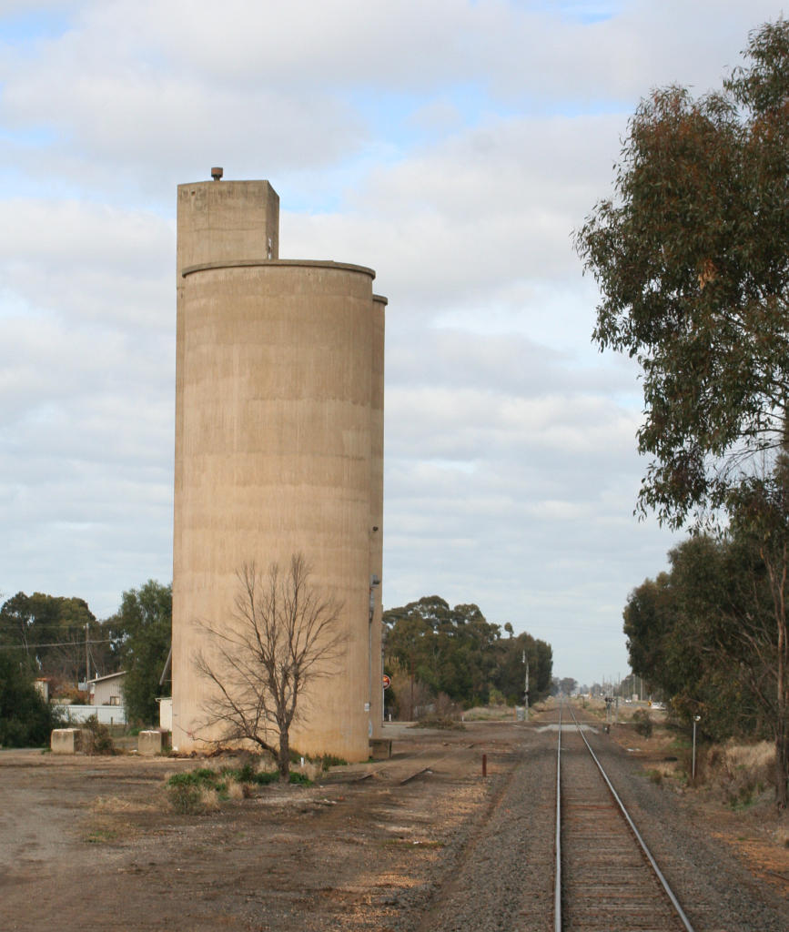 Tallygaroopna railway station, Victoria freight facilities: grain silos and removed siding. Platform was to the right